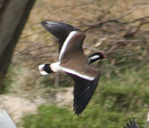 Red-Wattled Lapwing in flight, along with one other red-wattled lapwing and two little egrets along the Ganga Canal, showing "vee" shaped marking on wing